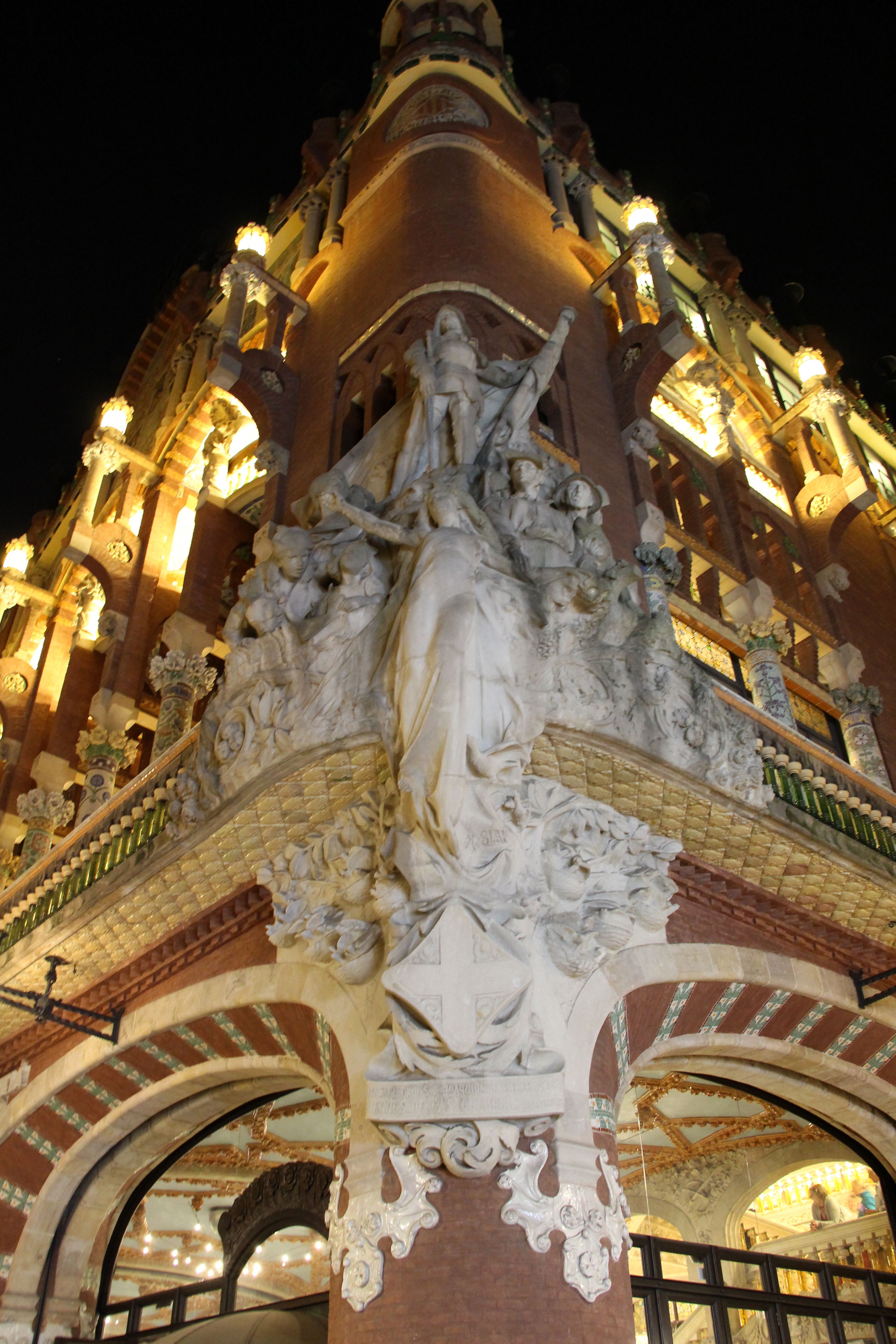 Barcelona - Palau de la Música Catalana